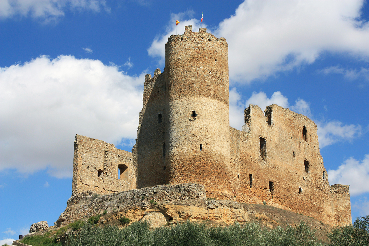 Mazzarino's castle